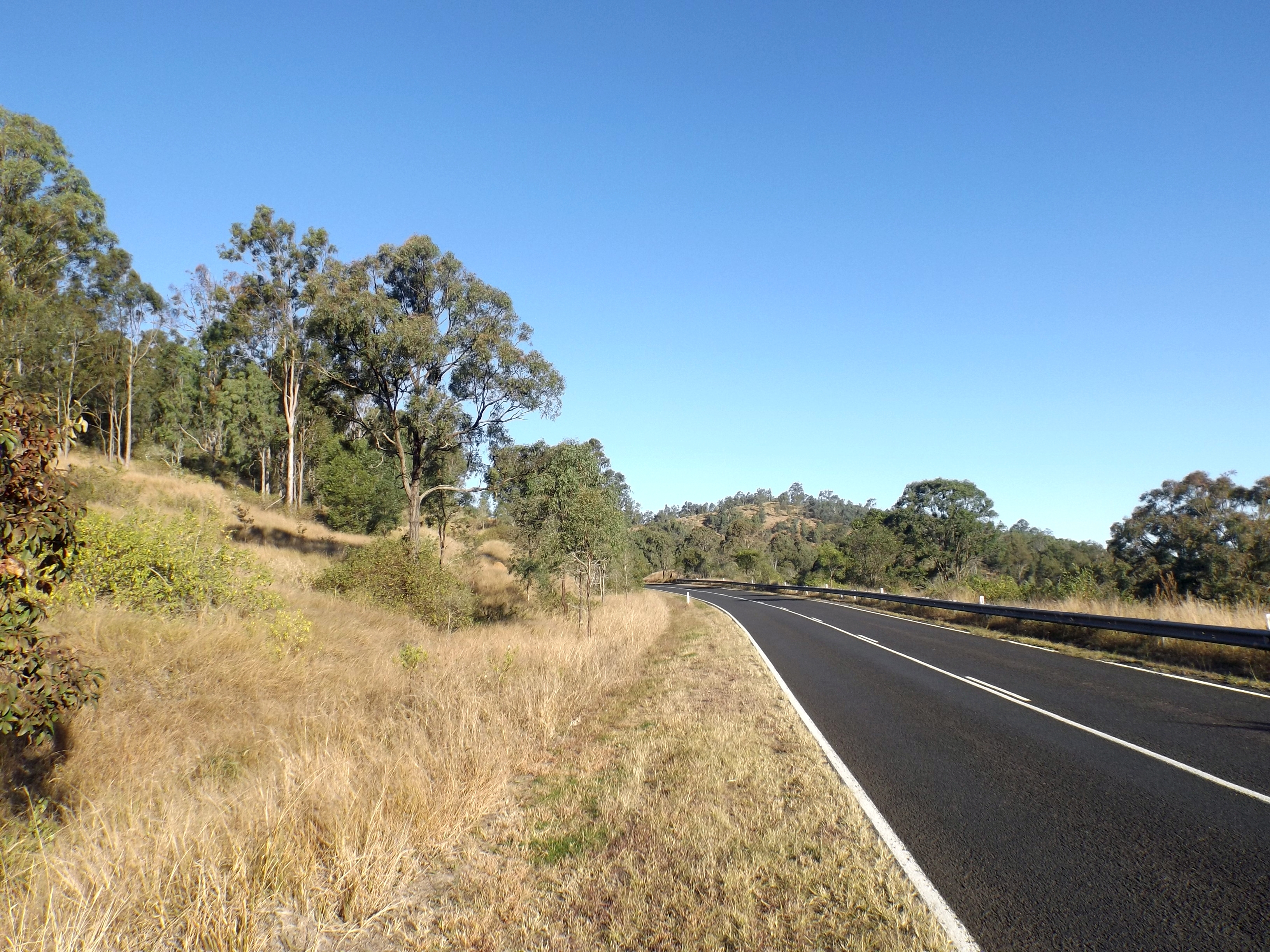 Photo of Wivenhoe Somerset Dam Road at Bryden, Somerset Region, Queensland, Australia.